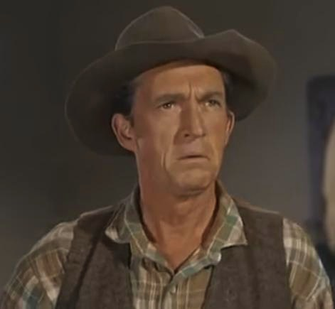 George Mitchell in the TV-series Bonanza, episode The Gunmen - cropped screenshot